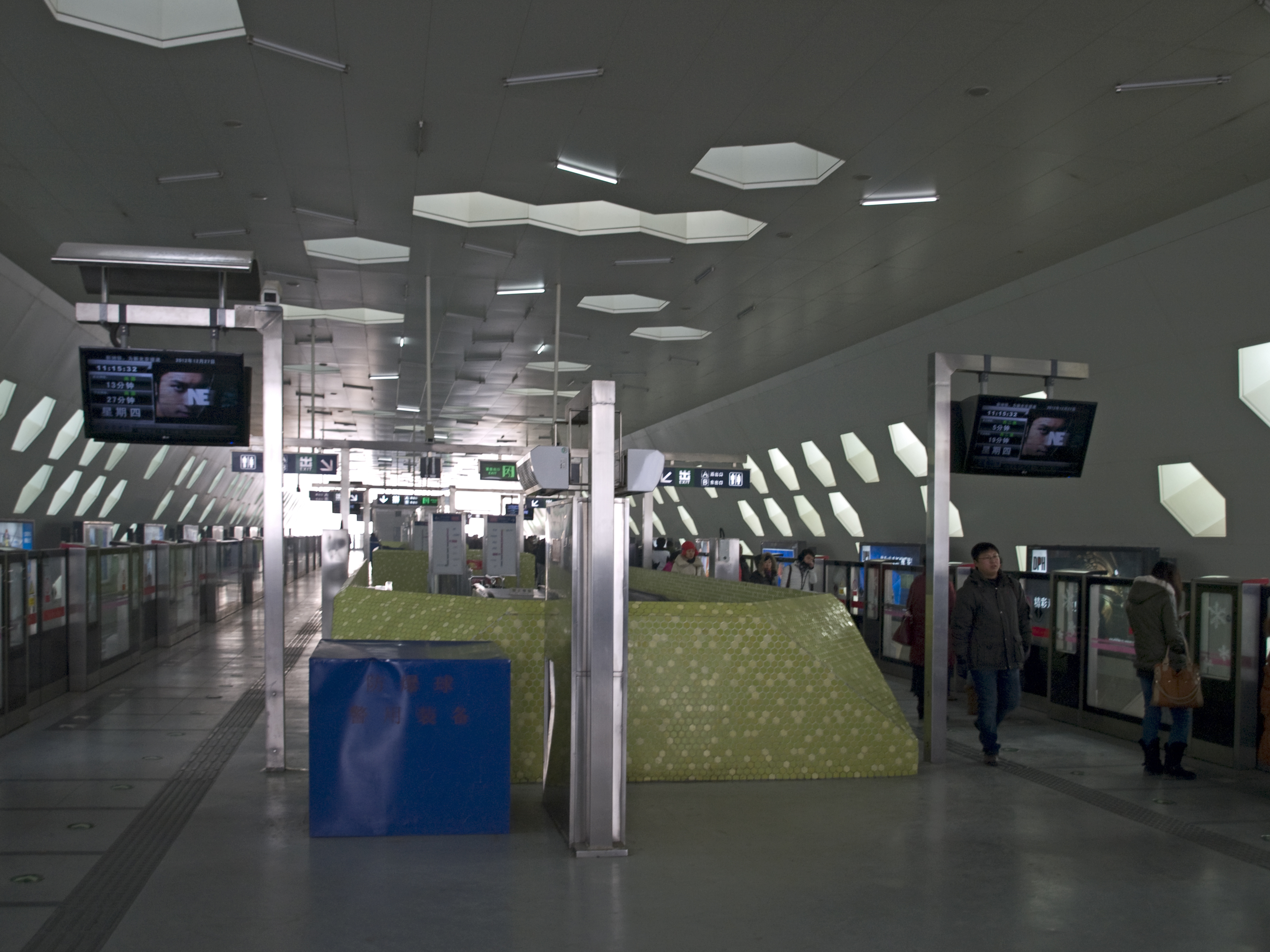 Shahe station, Beijing Subway